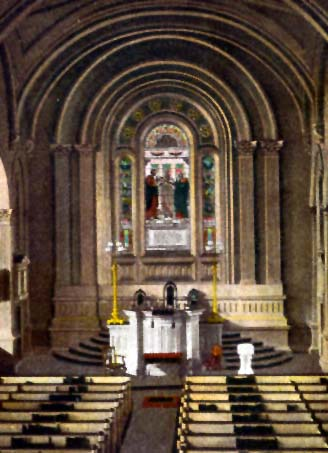 Postcard showing interior of Old Dutch Church, Kingston, NY, USA, at some point prior to 1907